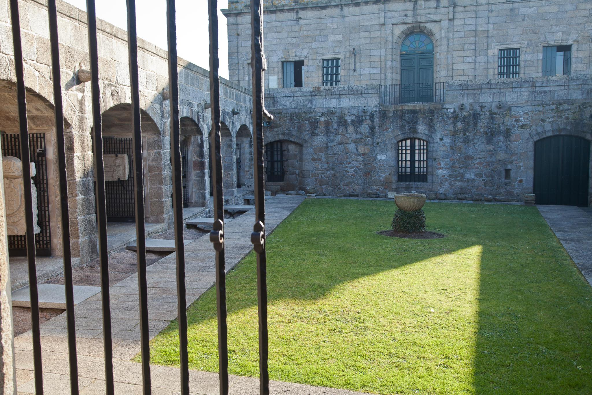 Castle of Saint Anthony, A Coruña, Galicia, Spain